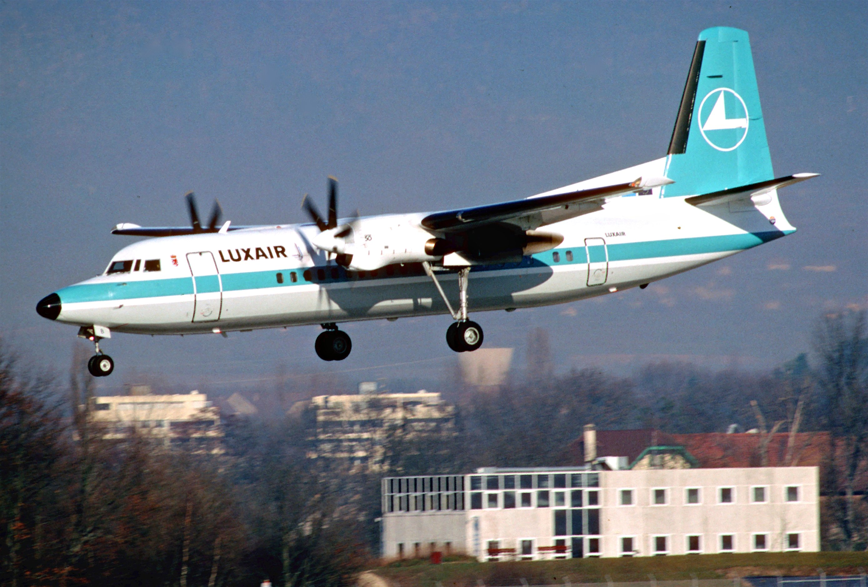 First flight: June 7, 1991... 18/06/1991 Luxair LX-LGB Crashed on November 6 2002 at Niederaven, Luxembourg whilst operating a flight from Tempelhof to Luxembourg. 20 people died in this accident, and two survived...